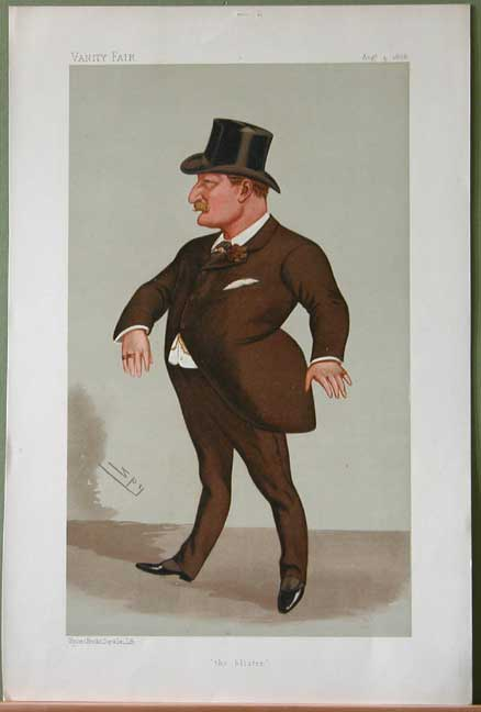 Statesmen No.548: Caricature of Mr Charles Kearns Deane Tanner BA MD FRCSI MP. Member of Parliament for Mid Cork. Caption reads: "the blister"